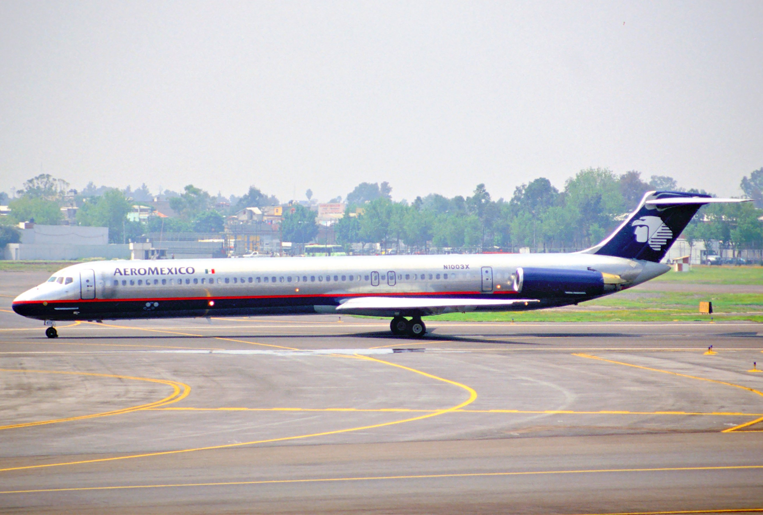 First flight: September 1, 1981... 14/12/1981 Aeromexico N1003X stored at Mojave 11/2003 31/03/2004 Aeropostal YV-02C 01/01/2006 Aeropostal YV131T Stored at VCV 10/2007